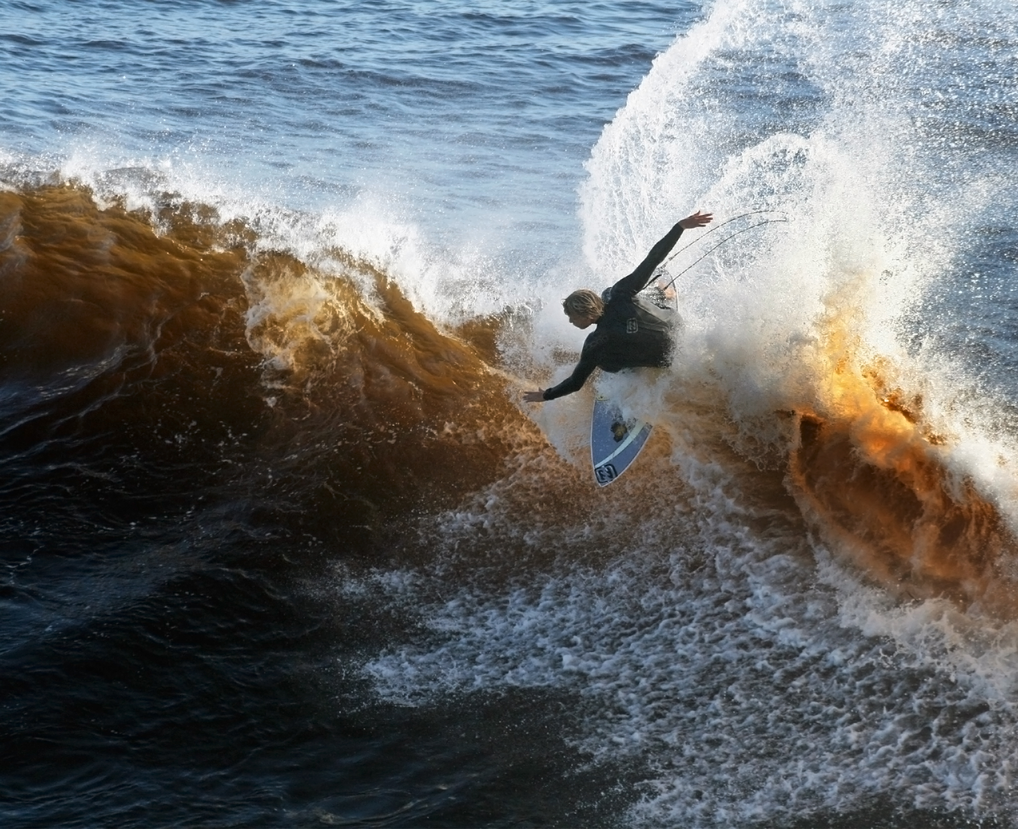 A California surfer. Santa Cruz and the surrounding Northern California coastline is a popular surfing destination; however, the year-round low temperature of the ocean in that region (averaging 57 °F/14 °C) necessitates the use of wetsuits.